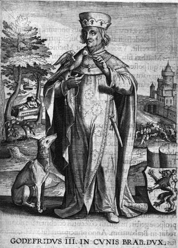 Godfrey III, Count of Leuven